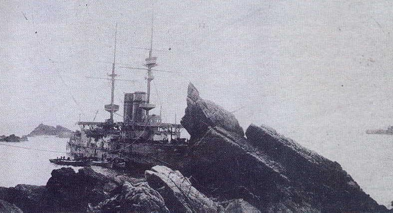 British battleship HMS Montagu (1901) wrecked on Lundy Island in 1906